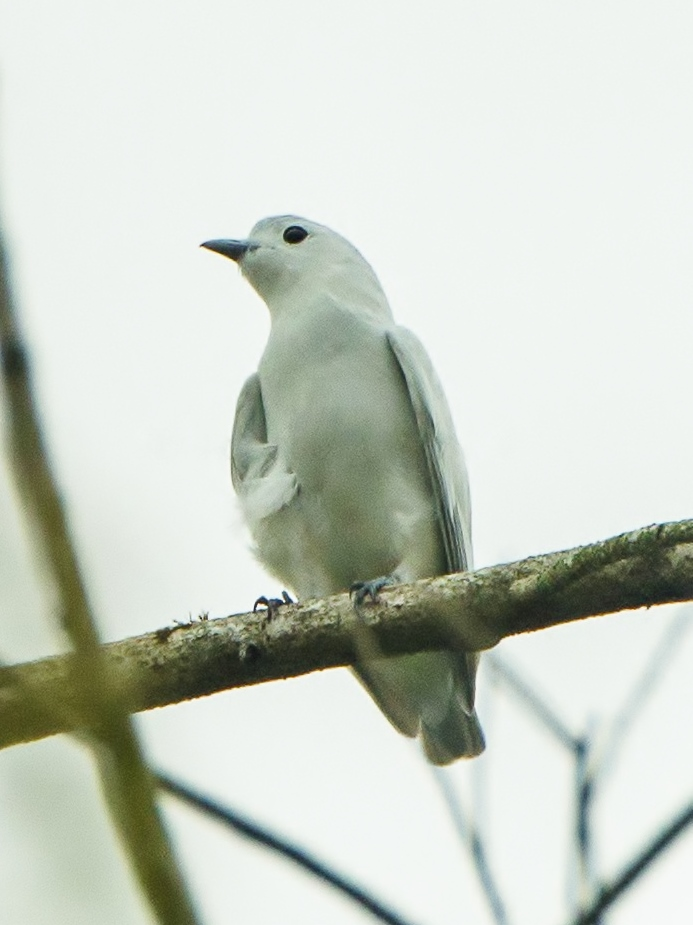 the only cotinga I could see during the trip in Costa Rica